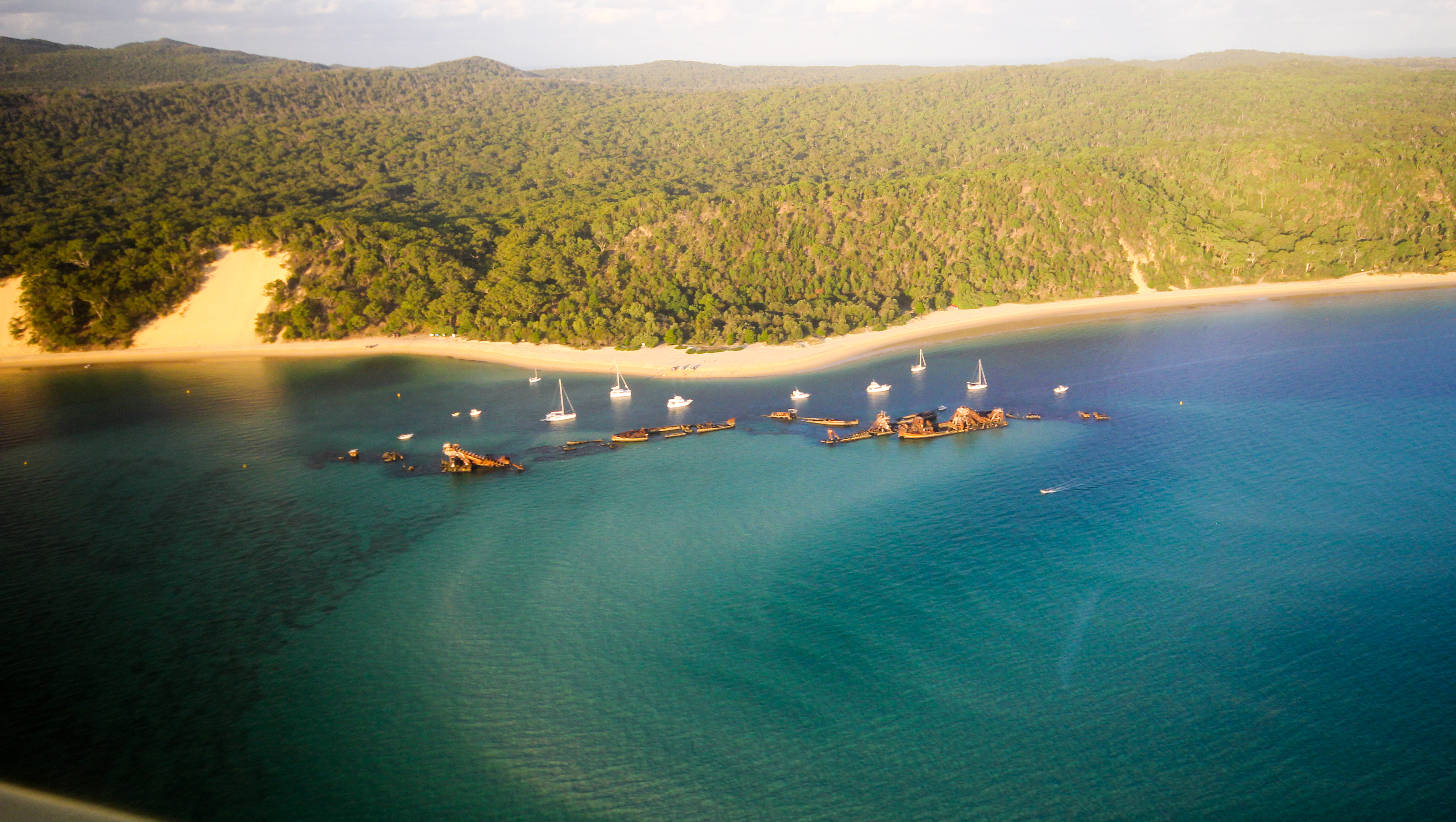 Flying over Tangalooma Wrecks, Moreton Island